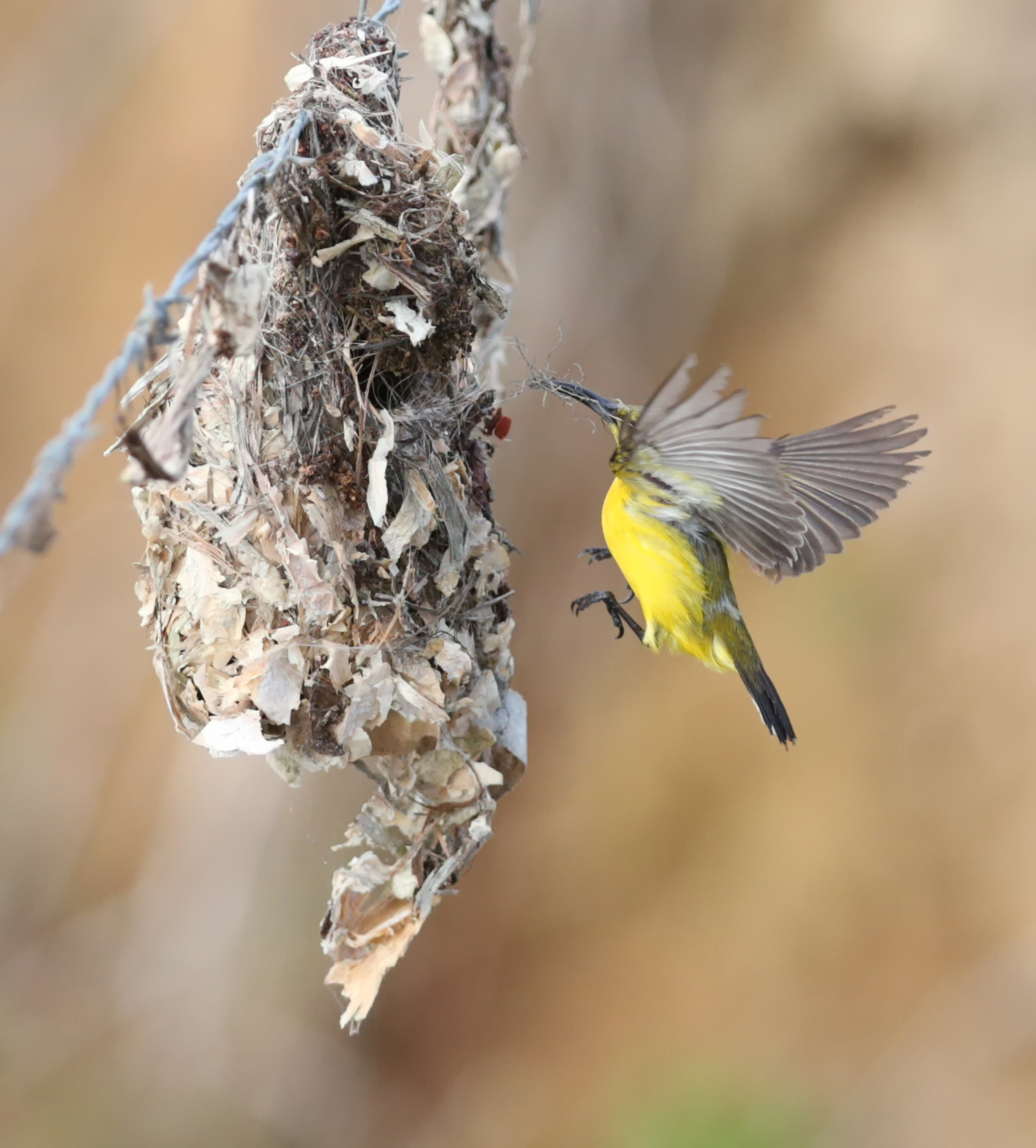 Female of Olive-backed Sunbird (Cinnyris jugularis) at the nest. Wyvuri, North Queensland